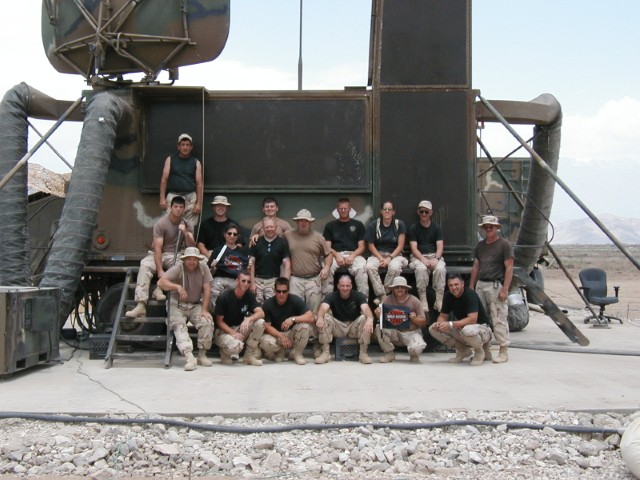 Air Traffic Controllers and Maintainers from the 241st ATCS in Bagram, Afghanistan